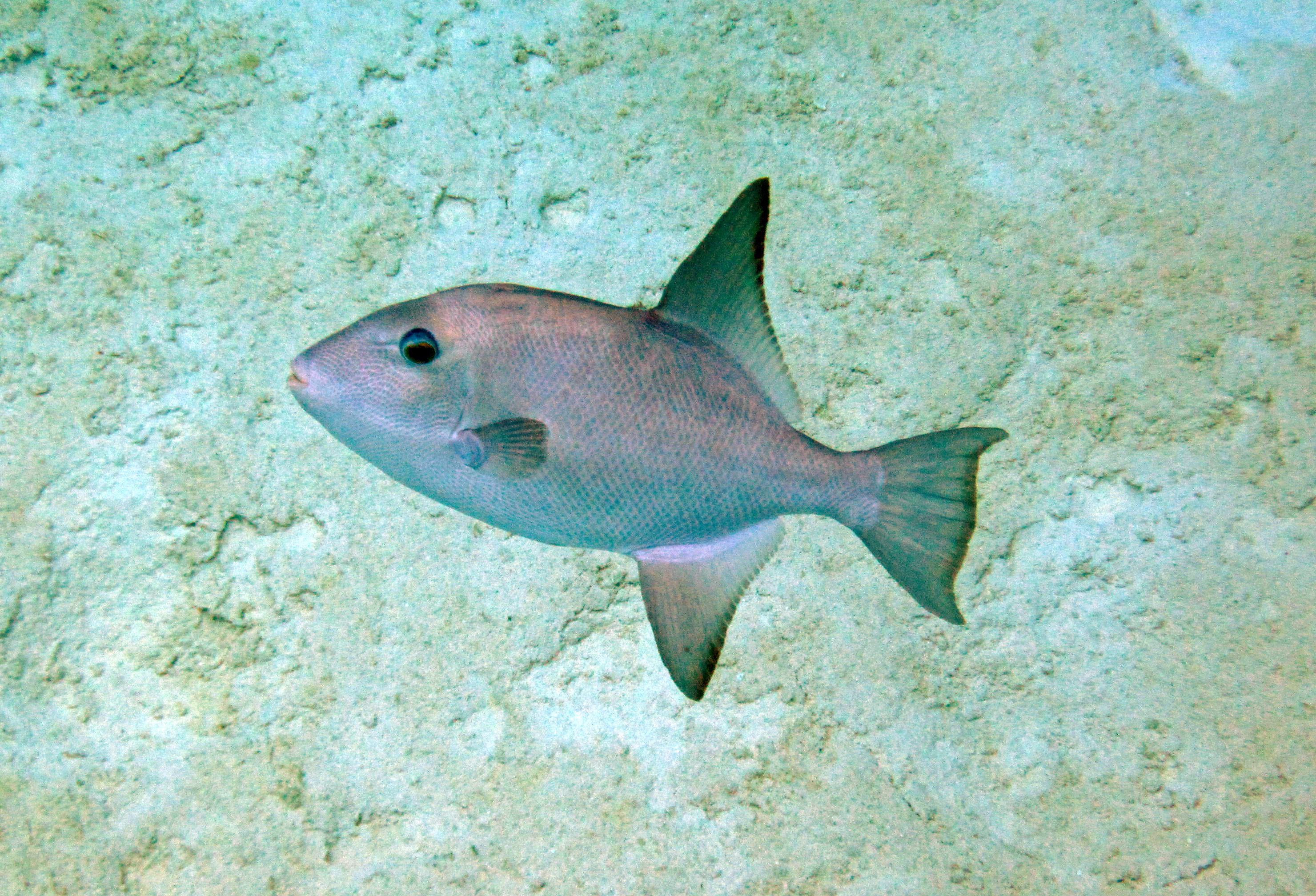 Canthidermis sufflamen (Mitchill, 1815) - ocean triggerfish. Classification: Animalia, Chordata, Vertebrata, Actinopterygii, Tetraodontiformes, Balistidae Locality: west of Bamboo Point, northern Fernandez Bay, western margin of San Salvador Island, eastern Bahamas